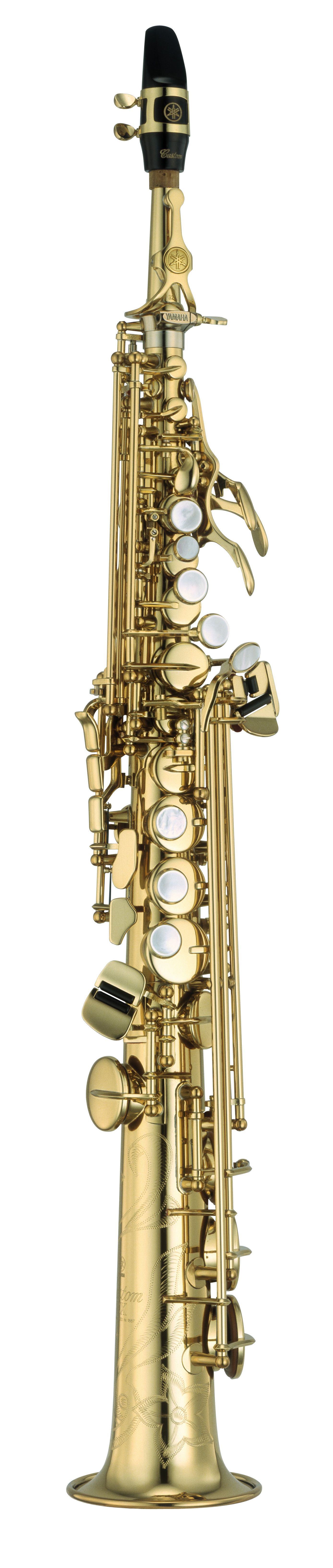 Yamaha soprano saxophone, model YSS-875 EX.